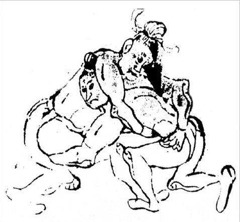 A depiction on the Dunhuang frescoes of two men wrestling.